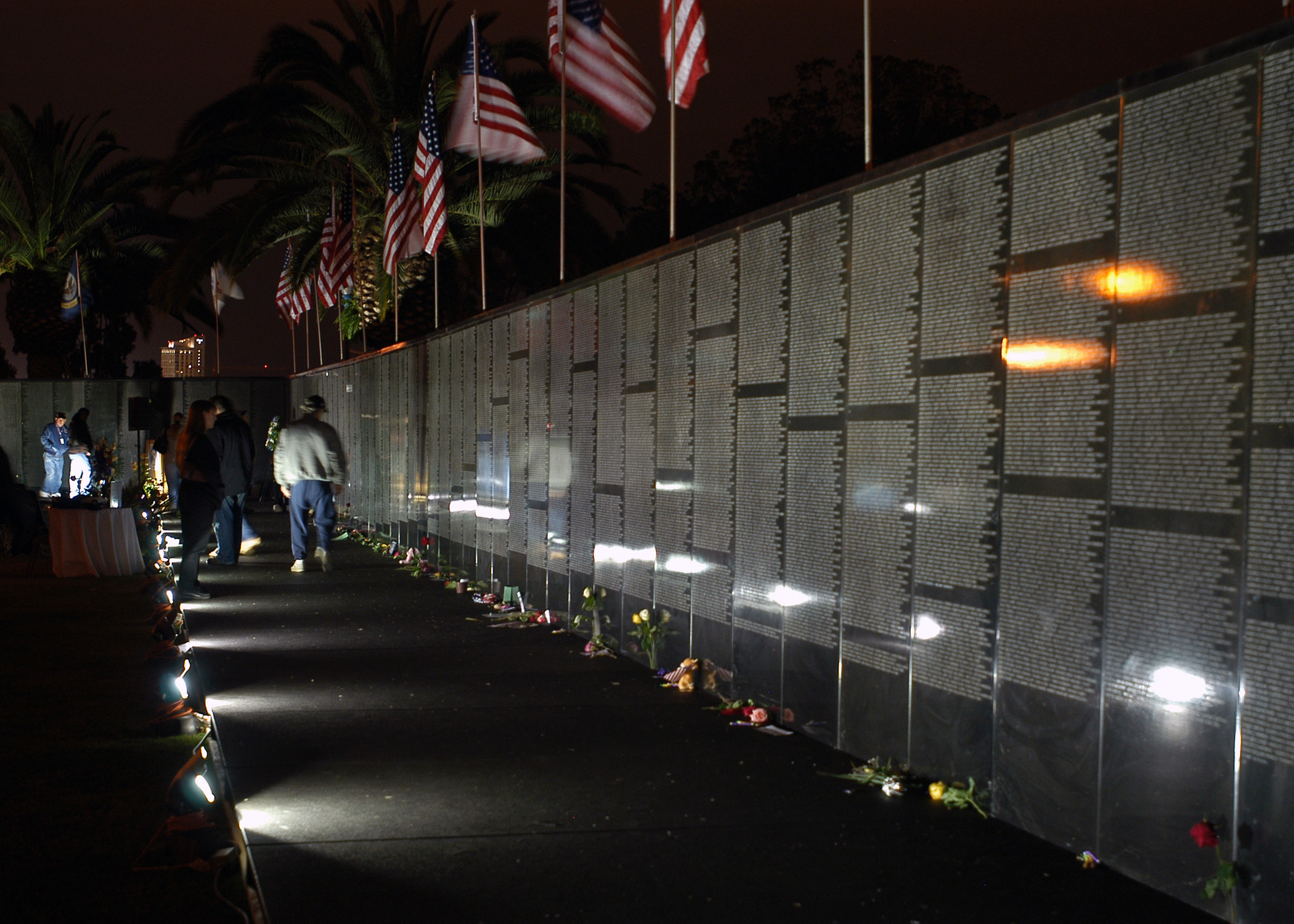 San Diego (May 6, 2006) - The three-quarters Dignity Memorial Vietnam Wall, which stands at 240-feet long and 8-feet high is illuminated by the night-lights and will be on display until May 8, 2006 at the Veterans Museum & Memorial Center in Balboa Park. The wall lists the names of more than 58,000 fallen heroes of the Vietnam War. U.S. Navy photo by Photographer's Mate 1st Class Marvin Harris (RELEASED)